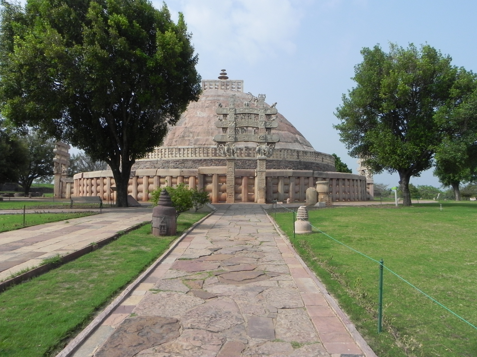 Sanchi known for its "Stupas" is a small village in Raisen District of the state of Madhya Pradesh. It is the location of several Buddhist monuments dating from the 3rd century BCE to the 12th CE and is one of the important places of Buddhist pilgrimage.